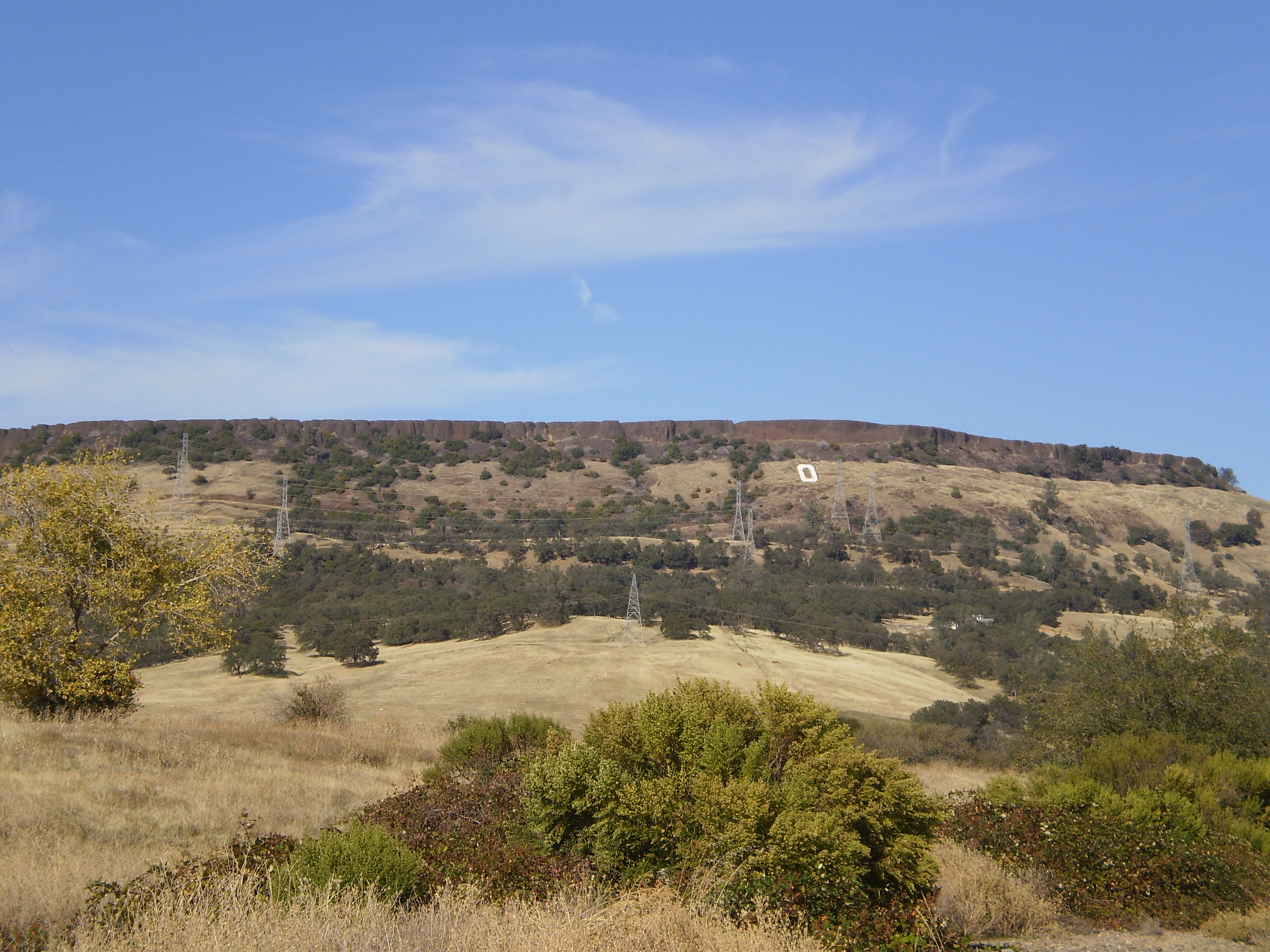 A picture taken near the face of South Table Mountain!